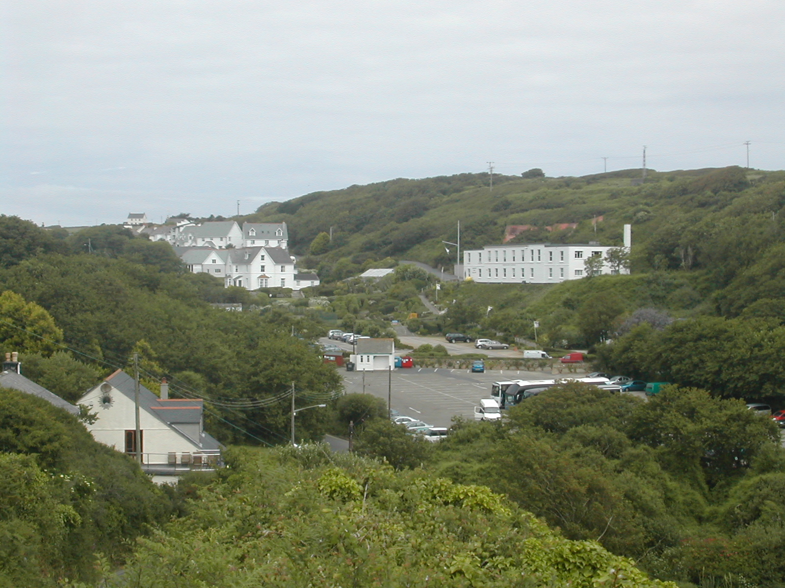 Porthcurno Valley looking north, near Penzance, Cornwall, United Kingdom Author Chris Angove June 2006